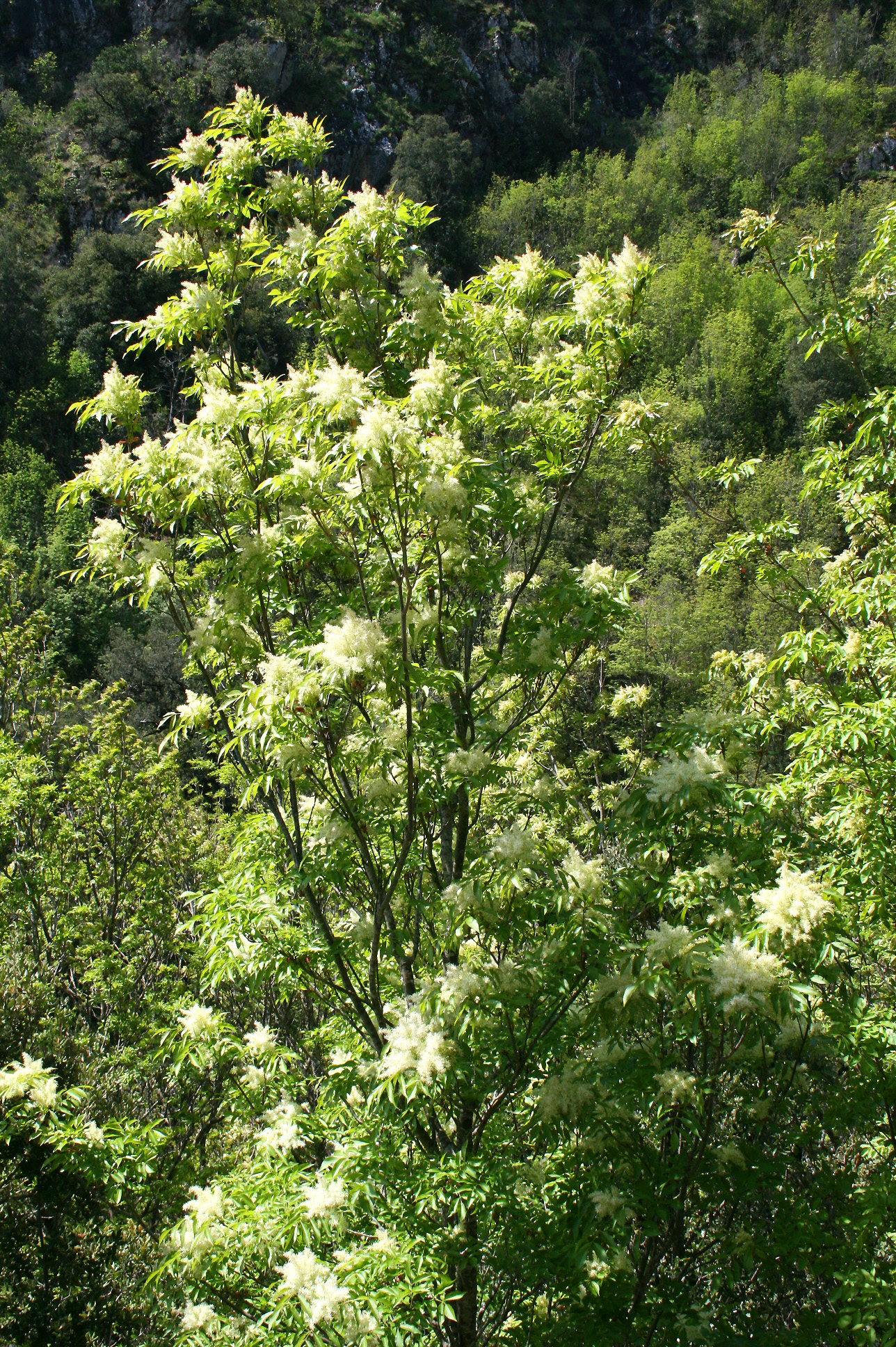 Flowering Ash (Fraxinus ornus) - Habit: Prunelli ravine ( Corse-du-Sud) - France. Corsu: Frassu à fiore (Fraxinus ornus) - Borga da Prunelli ( Corsica sutanna) - Francia. Walon: Frin.ne a fleûrs (Fraxinus ornus) - Place: Gwadjes do Prunelli (Corse-do-Sud) - France.